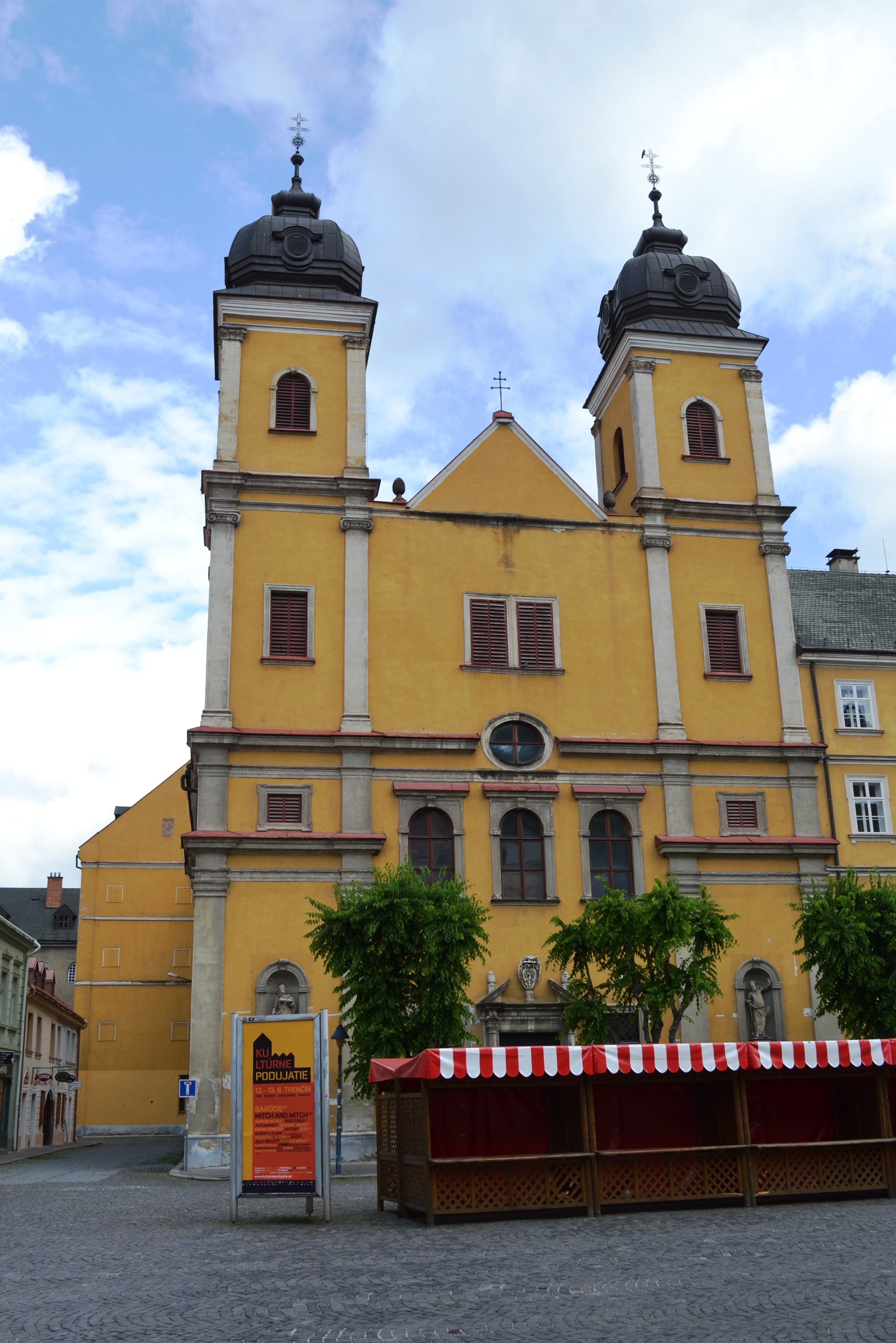 Church of St. Francis Xavier in TrenčínSlovenčina: Kostol sv. Františka Xaverského v Trenčíne